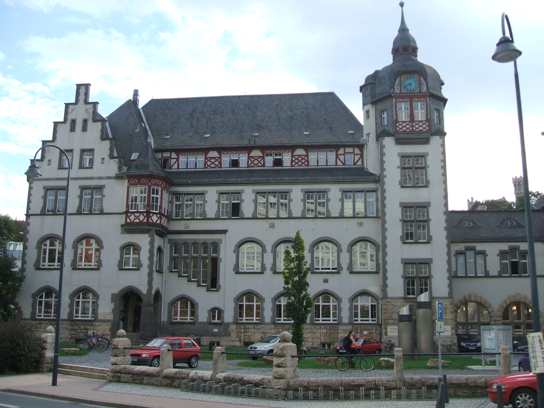 picture of Volkshaus Jena, Jena, Germany